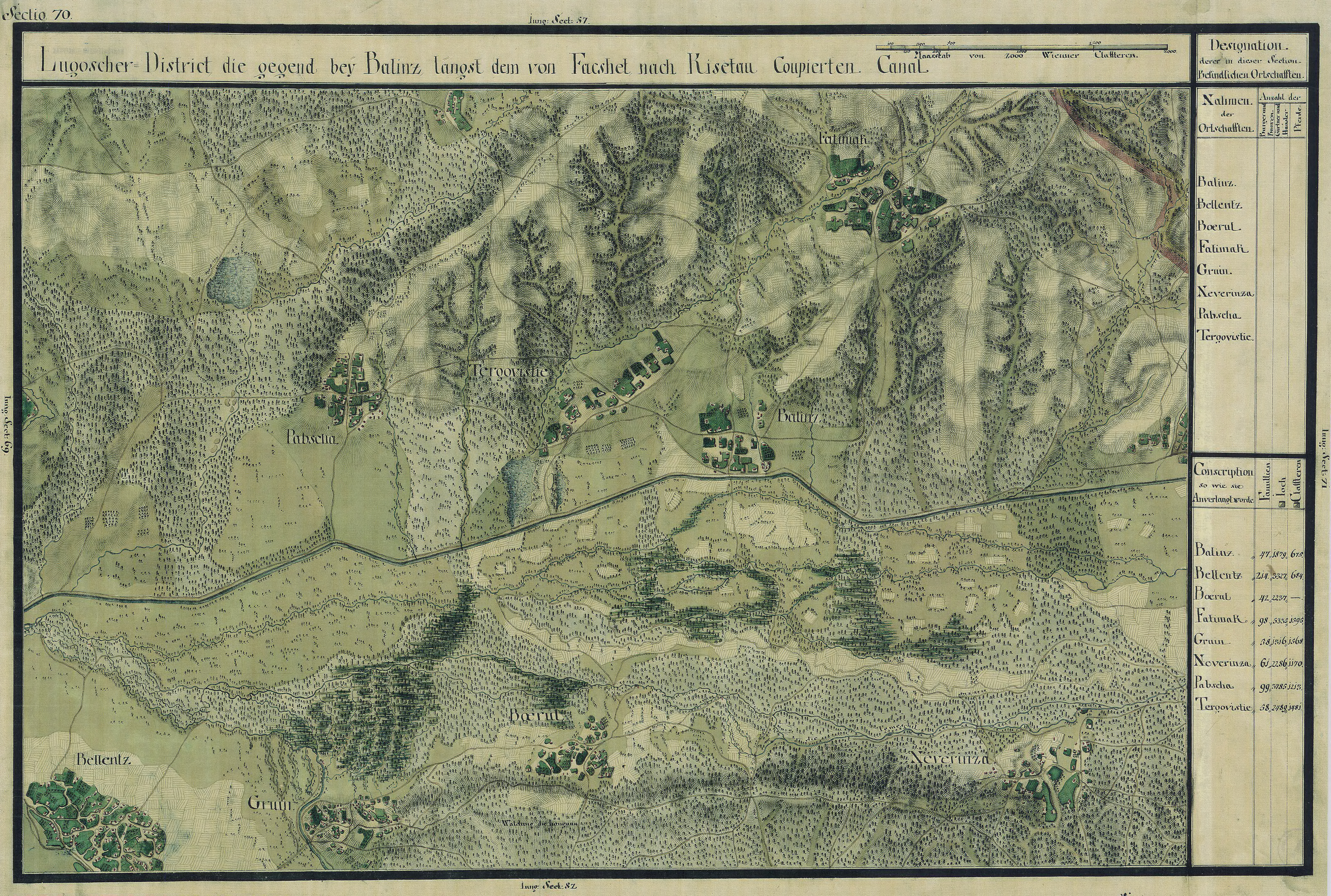 The Banat region in the cadastral maps: Josephinische Landesaufnahme, 1769-72. Josephinische Landaufnahme pg070